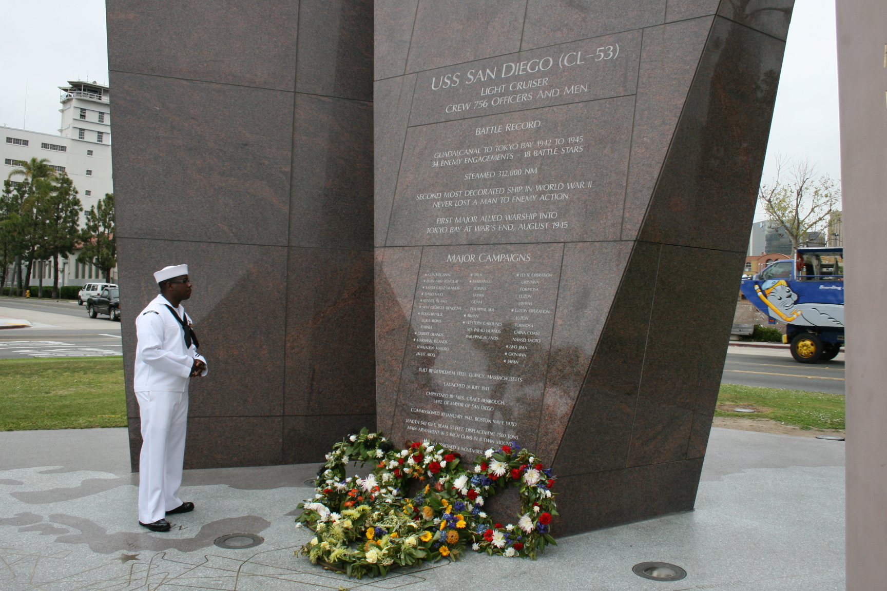 120430-N-LI693-017 SAN DIEGO (April 30, 2012) Yeoman 2nd Class Airrion Lemons, assigned to the San Antonio-class amphibious transport dock ship USS San Diego (LPD 22), visits the USS San Diego (CL 53) memorial during a wreath-laying ceremony on the memorial's dedication anniversary. The memorial in downtown San Diego was dedicated April 30, 2004 to commemorate the Sailors aboard the World War II vessel. San Diego is the fourth ship named for the city and the first to be homeported in her namesake. The ship is the sixth in the San Antonio class and will be commissioned in San Diego on May 19.